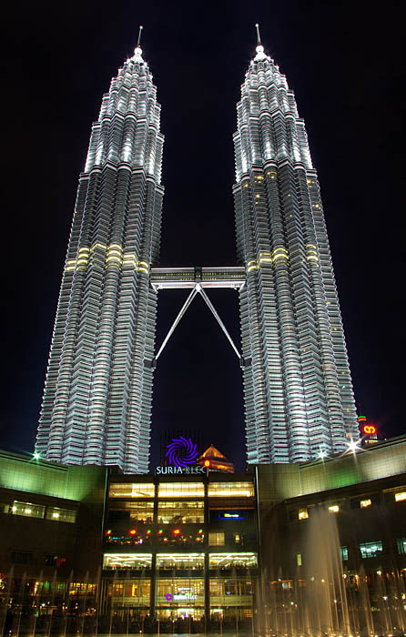 KLCC - Twin Towers in Kuala Lumpur at night